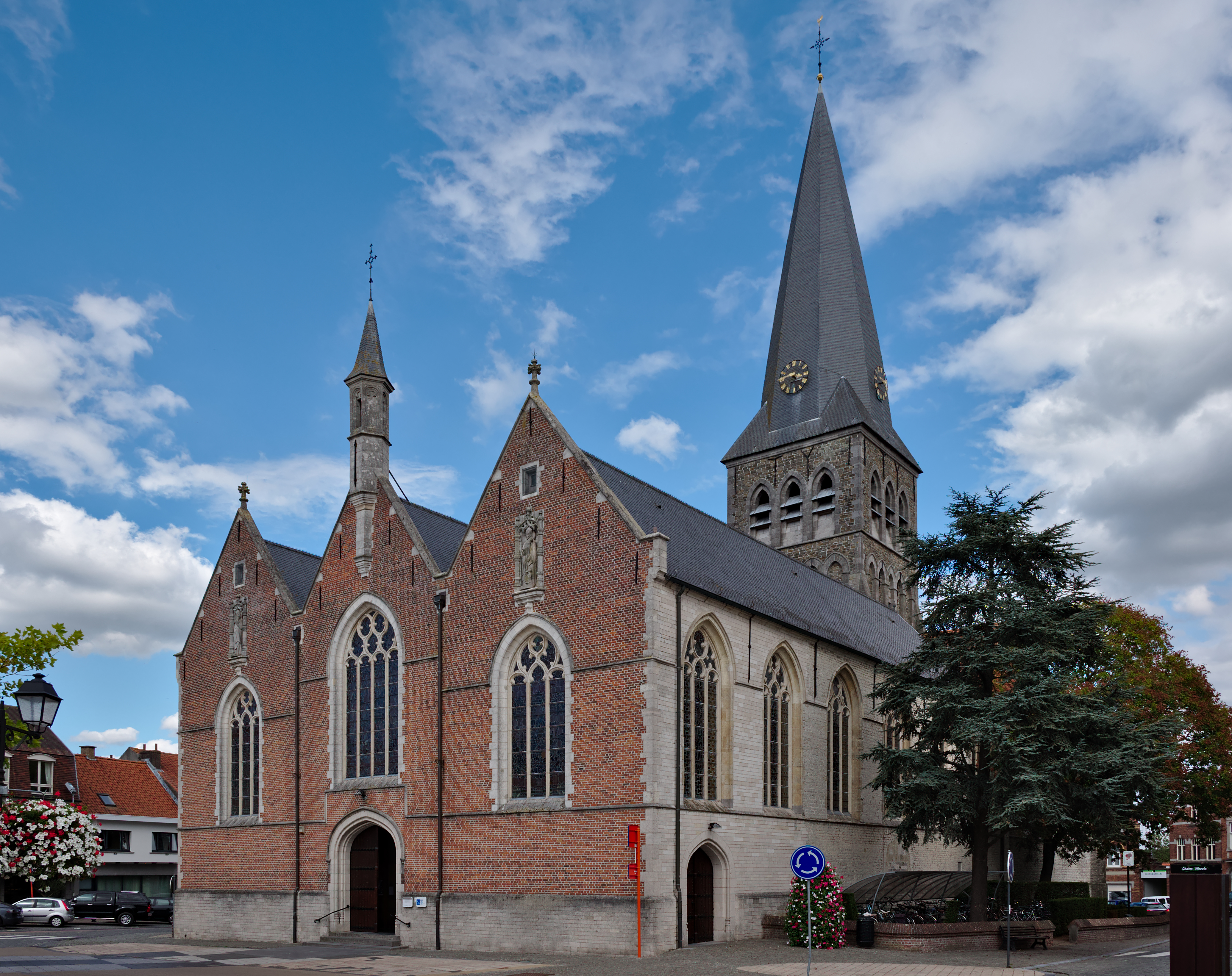 Saint-Martin church in Zomergem, Belgium This photo of immovable heritage has been taken in the Flemish Region